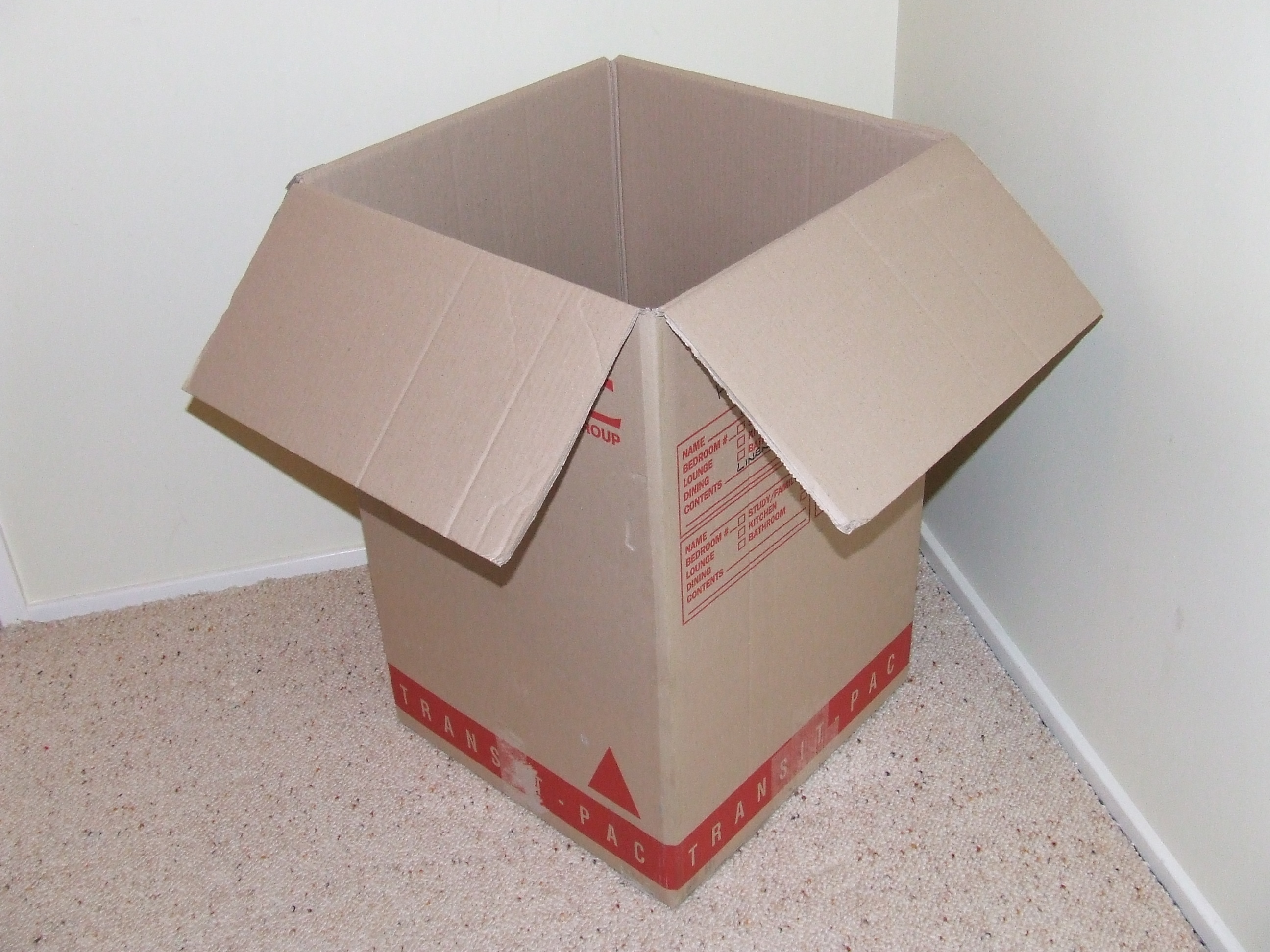 A picture of a box.